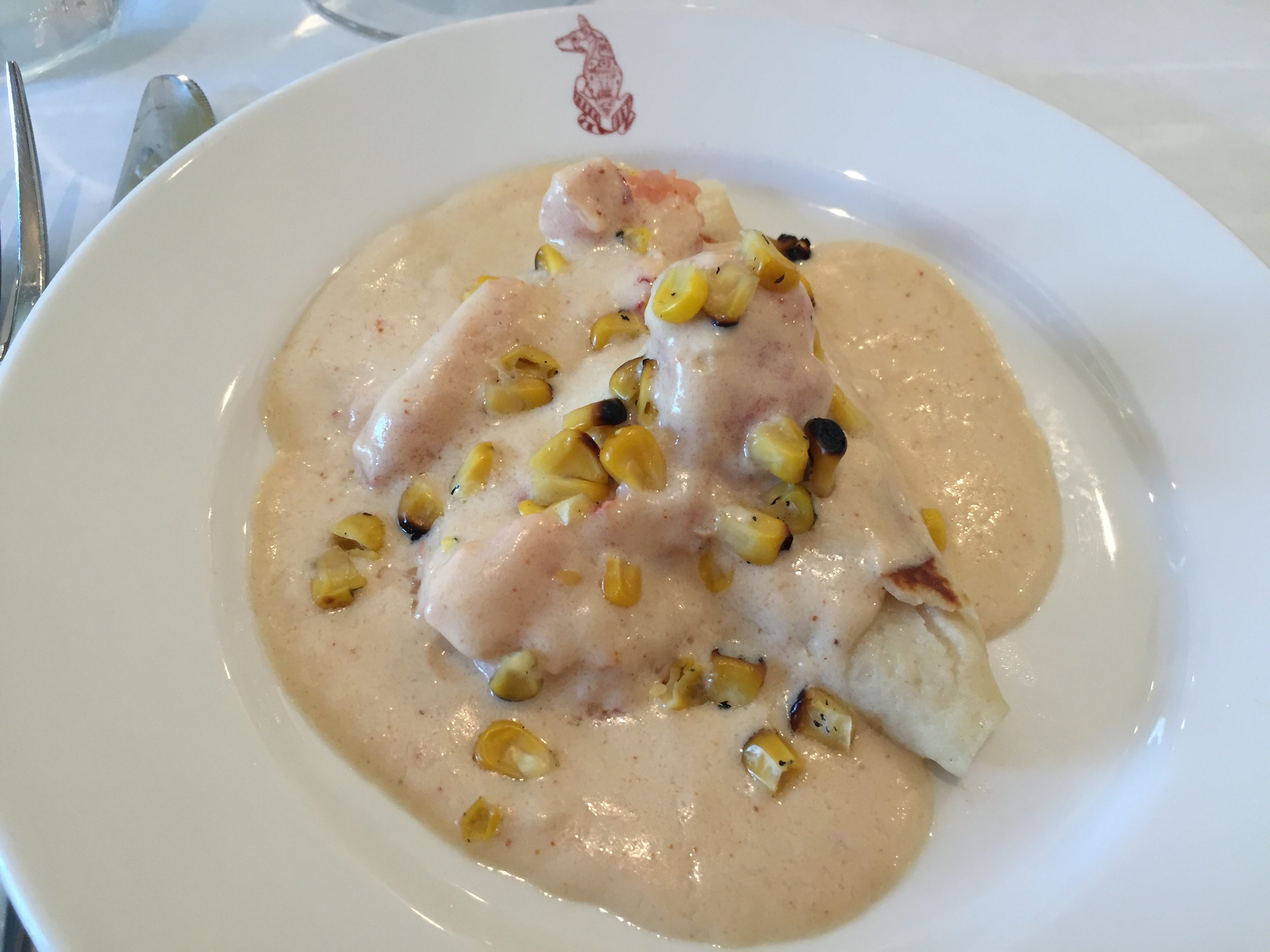 Canal Street Bistro, Mid-City New Orleans